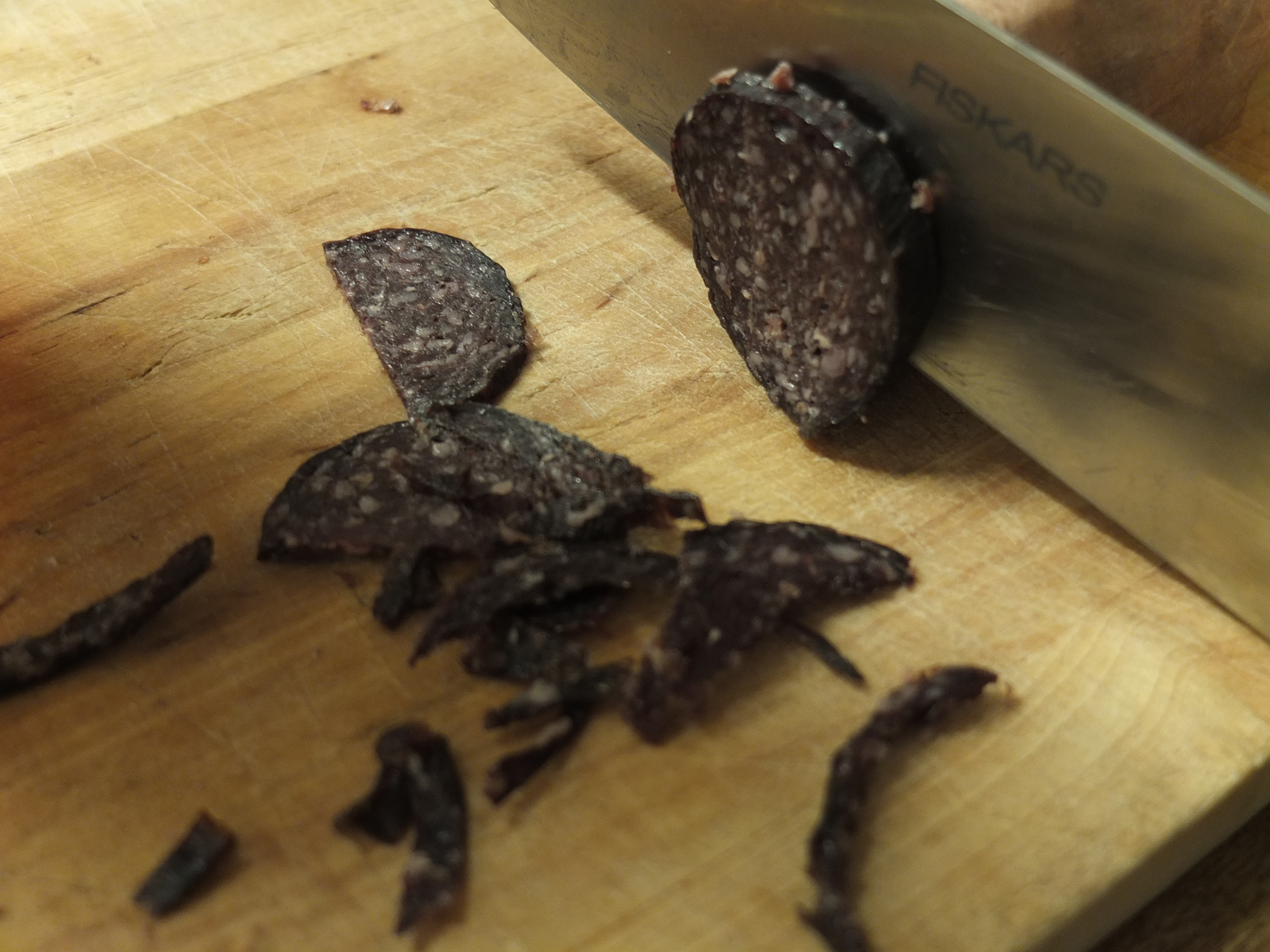 Picture of raindeer sausage